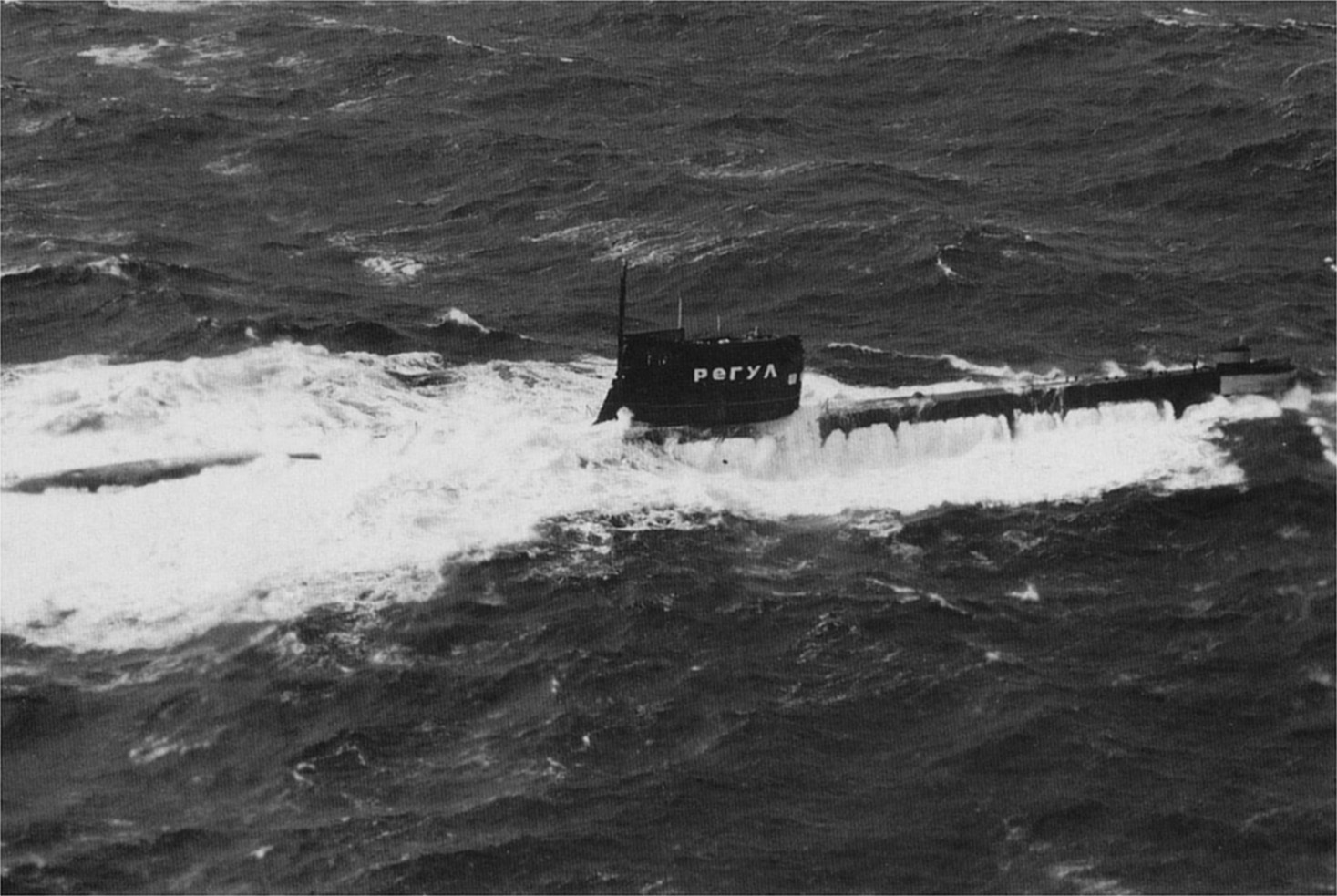 Soviet Foxtrot-class (project 641) diesel submarine B-101 in operation "Regul"